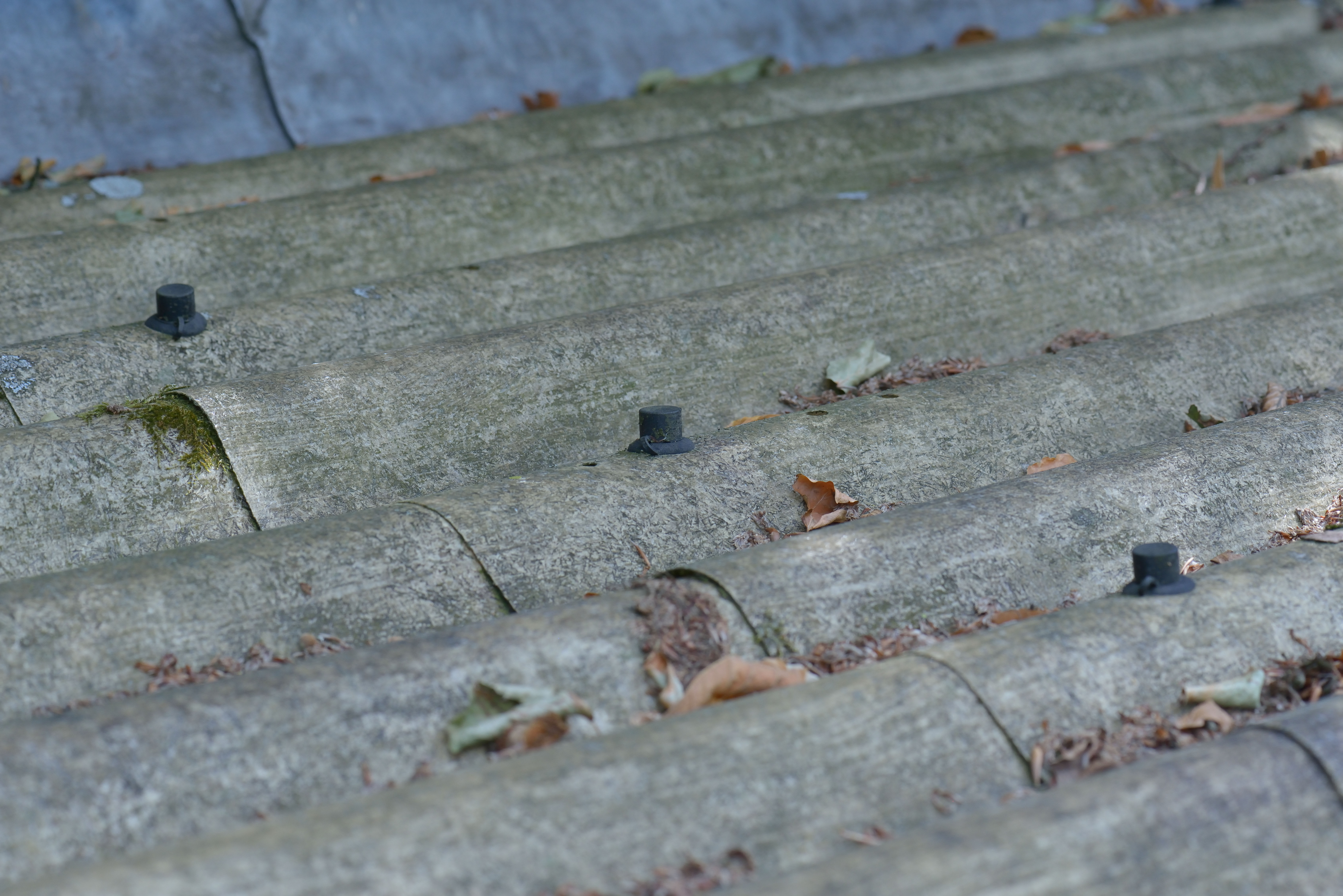 Lag bolt, Polyester fibre strengthen corrugated slates